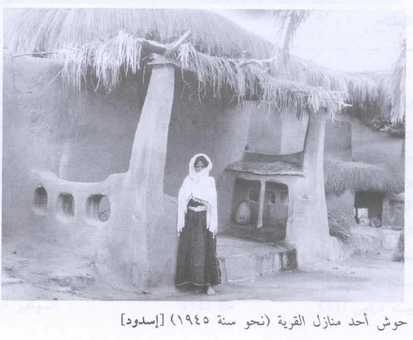 Court Yard in Isdud 1945